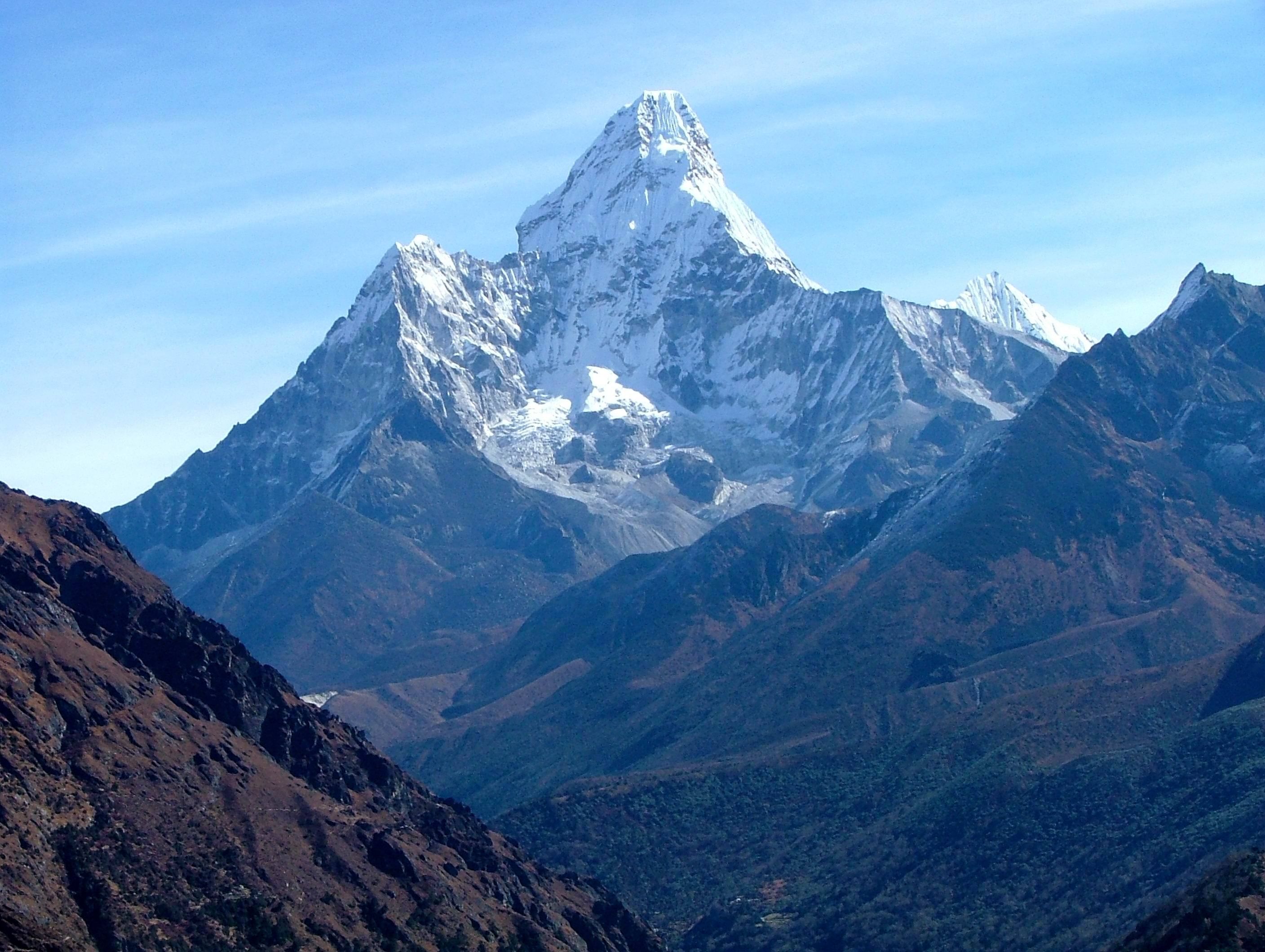 Ama Dablam, Khumbu Himal, Nepal.